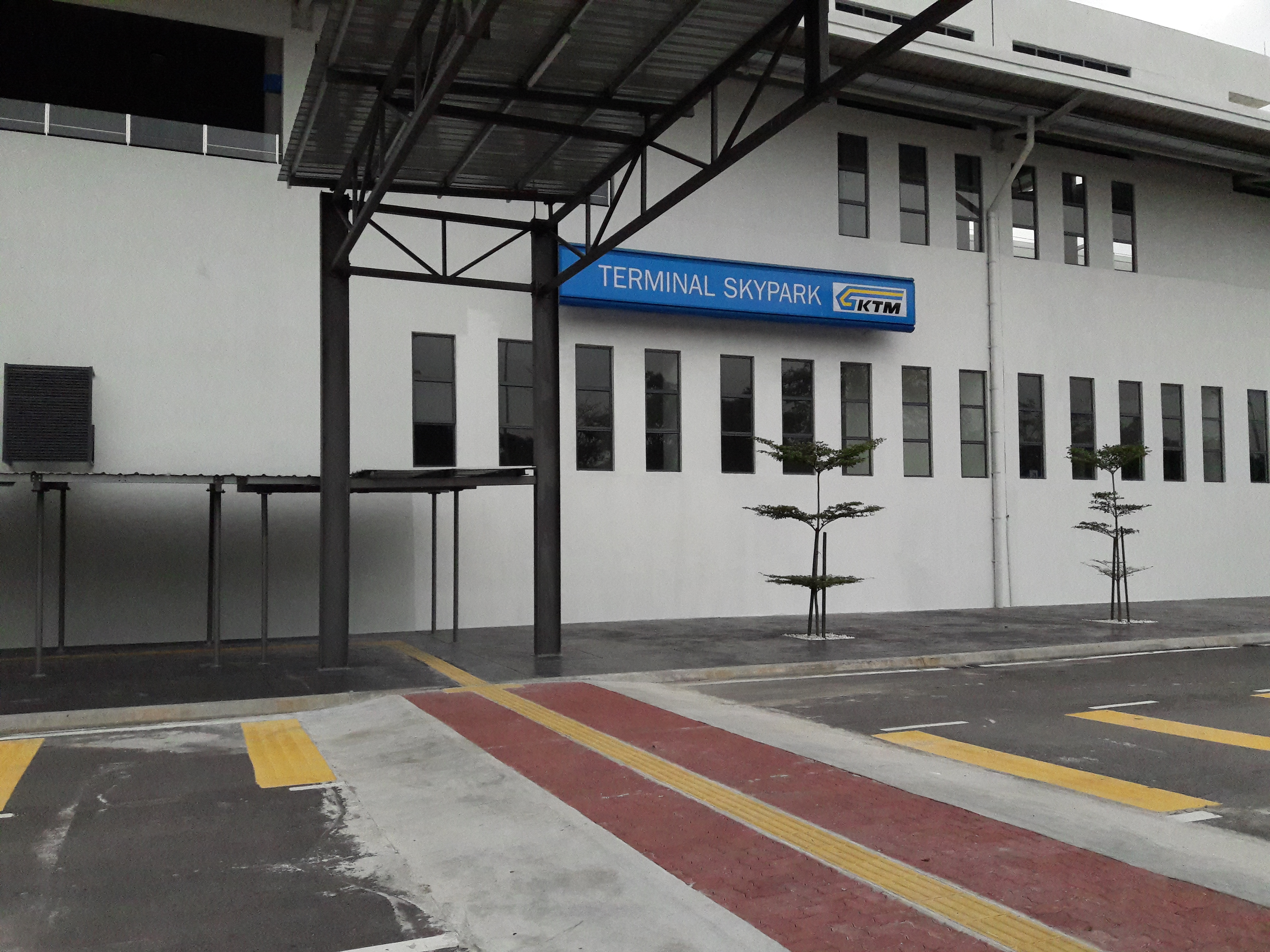 KTM Terminal Skypark station front, Subang Airport, Selangor, Malaysia